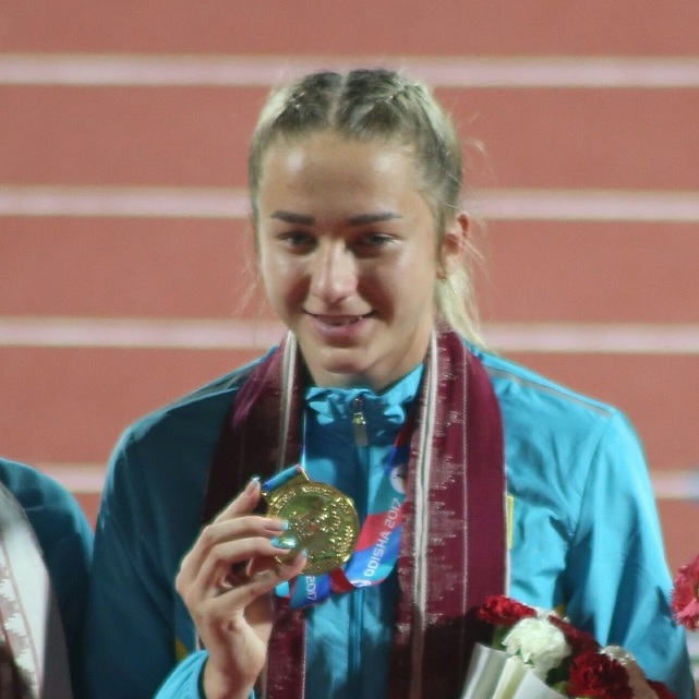 2017 Asian Athletics Championships at the Kalinga Stadium in Bhubaneswar, India